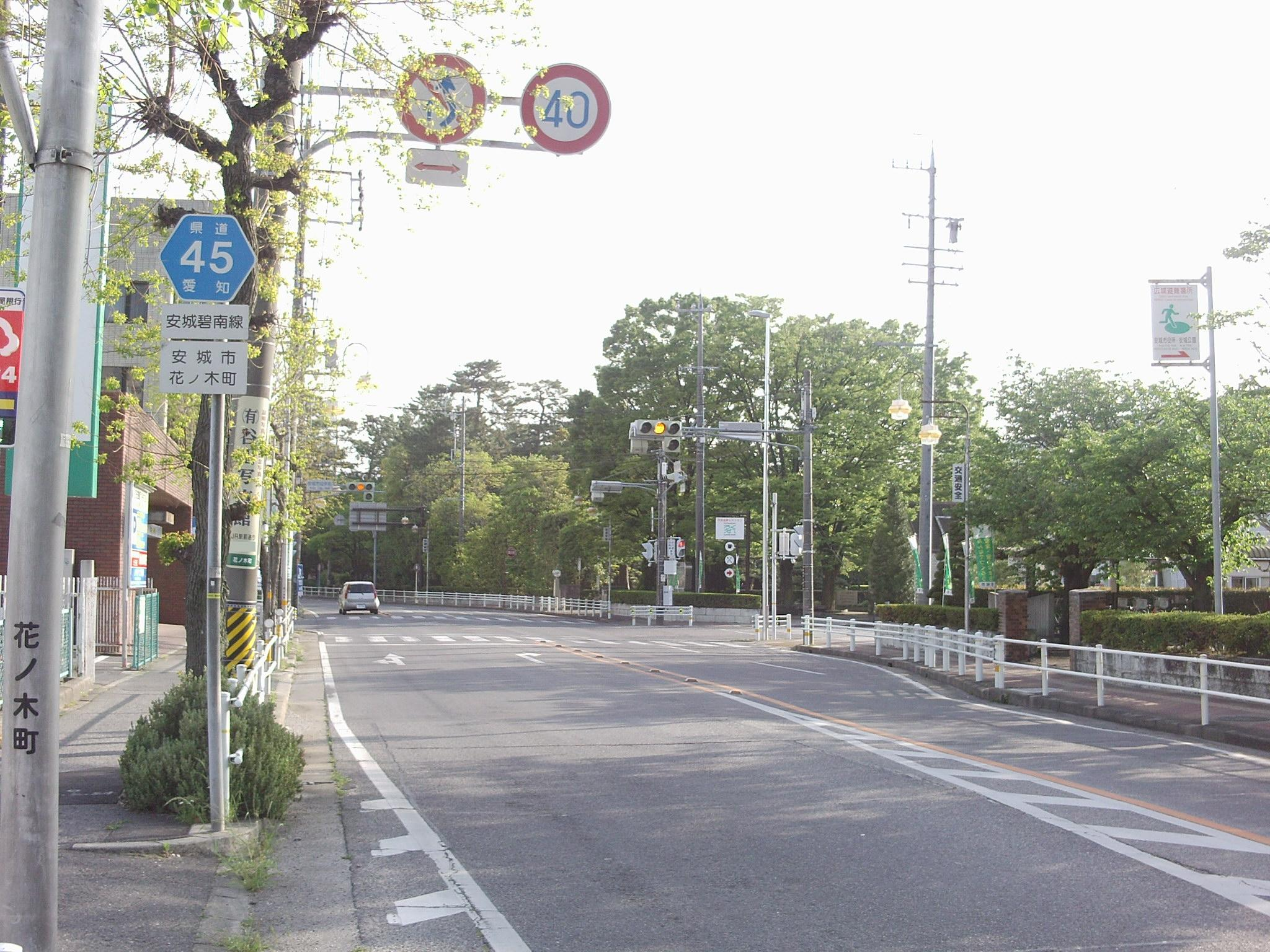 Aichi prefectural road No.45 in Hananokicho, Anjo, Aichi.